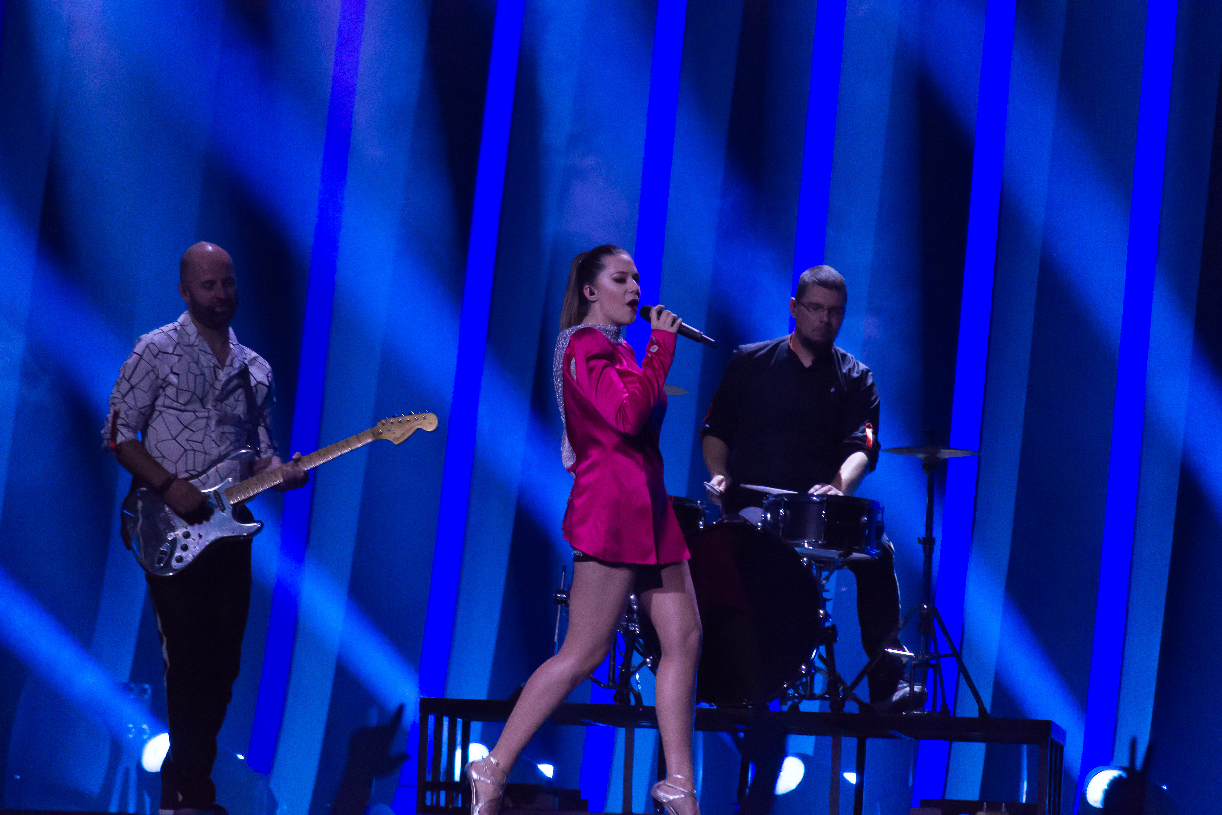 Eye Cue representing Macedonia with the song "Lost and Found" during a rehearsal before the first semi final of the Eurovision Song Contest 2018 in Lisbon.